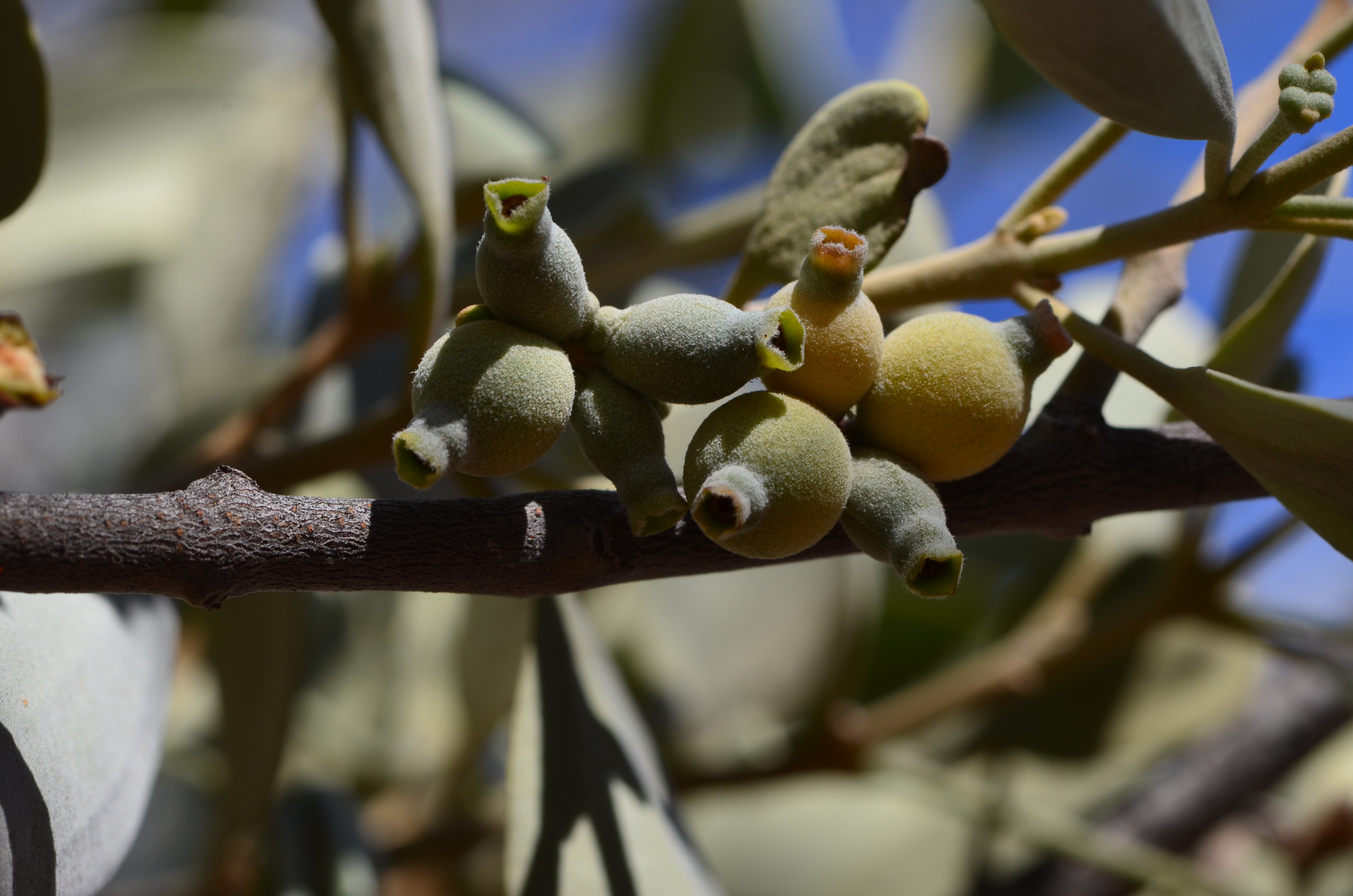 Mistletoe fruits, Amyema maidenii subsp. maidenii. On the Bourke-Cunnamulla road before the turnoff to Ledknapper Nature Reserve (NSW). On a mulga, Acacia aneura